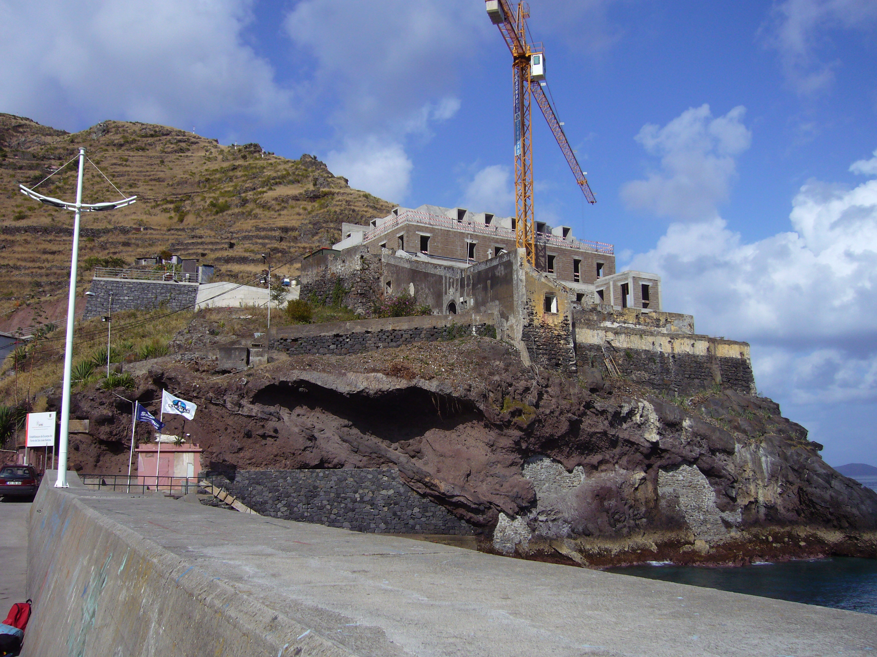 Fortress São João Baptista in Machico (Madeira)